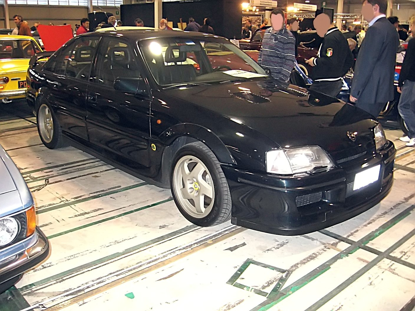 Subject: Opel Omega Lotus 3.6 24v Biturbo Date:October 26th, 2008 Event: Auto e Moto d'Epoca 2008 Place/Country: Padova, Italy I release all rights in the public domain.